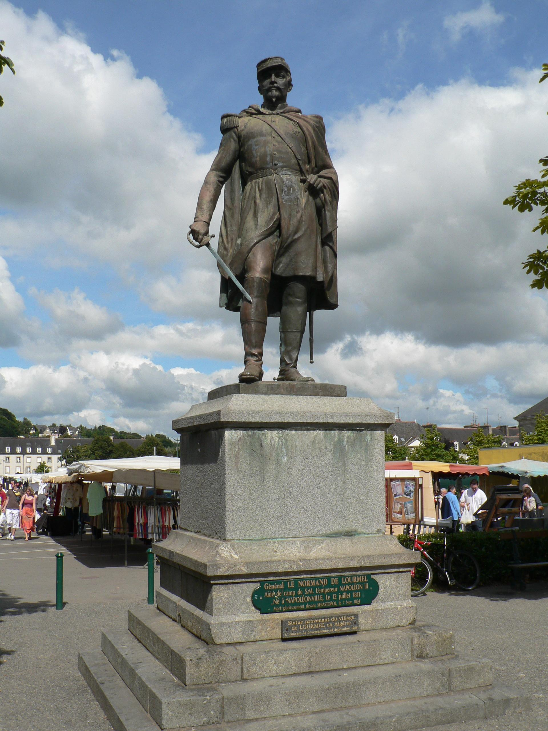 Statue of general Le Normand de Lourmel, Pontivy - France